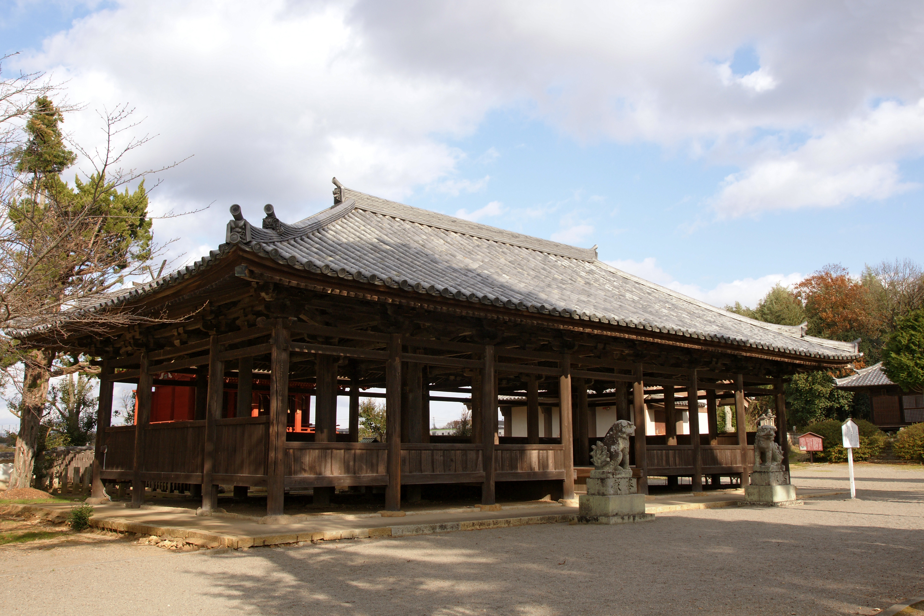 Hachiman-jinja-haiden of Jōdo-ji Buddhist temple (Japan's Important Cultural Property) in Ono, Hyogo prefecture, Japan.